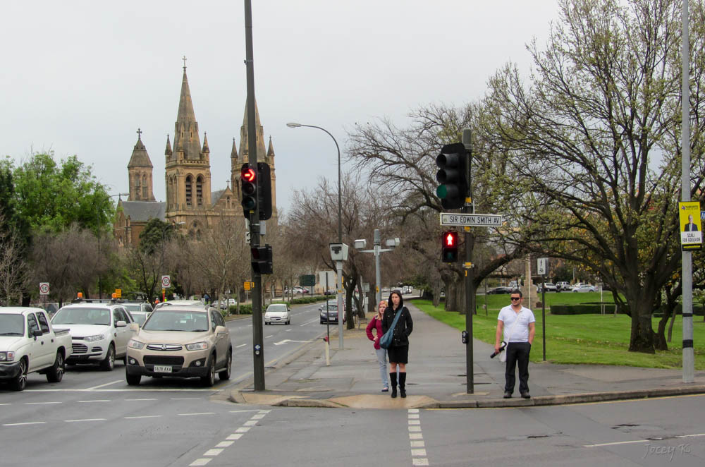 On a wet day in Adelaide, September 5, 2013 Australia. You can see St Peter's Cathedral! Adelaide is the capital city of South Australia and the fifth-largest city in Australia. The demonym "Adelaidean" is used in reference to the city and its residents. Adelaide is north of the Fleurieu Peninsula, on the Adelaide Plains between the Gulf St Vincent and the low-lying Mount Lofty Ranges which surround the city. Adelaide stretches 20 km (12 mi) from the coast to the foothills, and 90 km (56 mi) from Gawler at its northern extent to Sellicks Beach in the south. Named in honour of Adelaide of Saxe-Meiningen, queen consort to King William IV, the city was founded in 1836 as the planned capital for a freely settled British province in Australia. Colonel William Light, one of Adelaide's founding fathers, designed the city and chose its location close to the River Torrens in the area originally inhabited by the Kaurna people. Light's design set out Adelaide in a grid layout, interspaced by wide boulevards and large public squares, and entirely surrounded by parkland. Early Adelaide was shaped by religious freedom and a commitment to political progressivism and civil liberties, which led to the moniker "City of Churches". Prior to its proclamation as a British settlement in 1836, the area around Adelaide was inhabited by the indigenous Kaurna Aboriginal nation (pronounced "Garner" or "Gowna"). For More Info